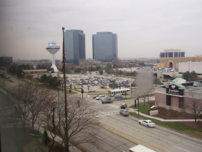 Schaumburg: NW across Woodfield Rd. at Mall Dr., across Woodfield Mall SW parking lot, with water tower to the left; Zurich/executive highrises on Plaza Dr in background